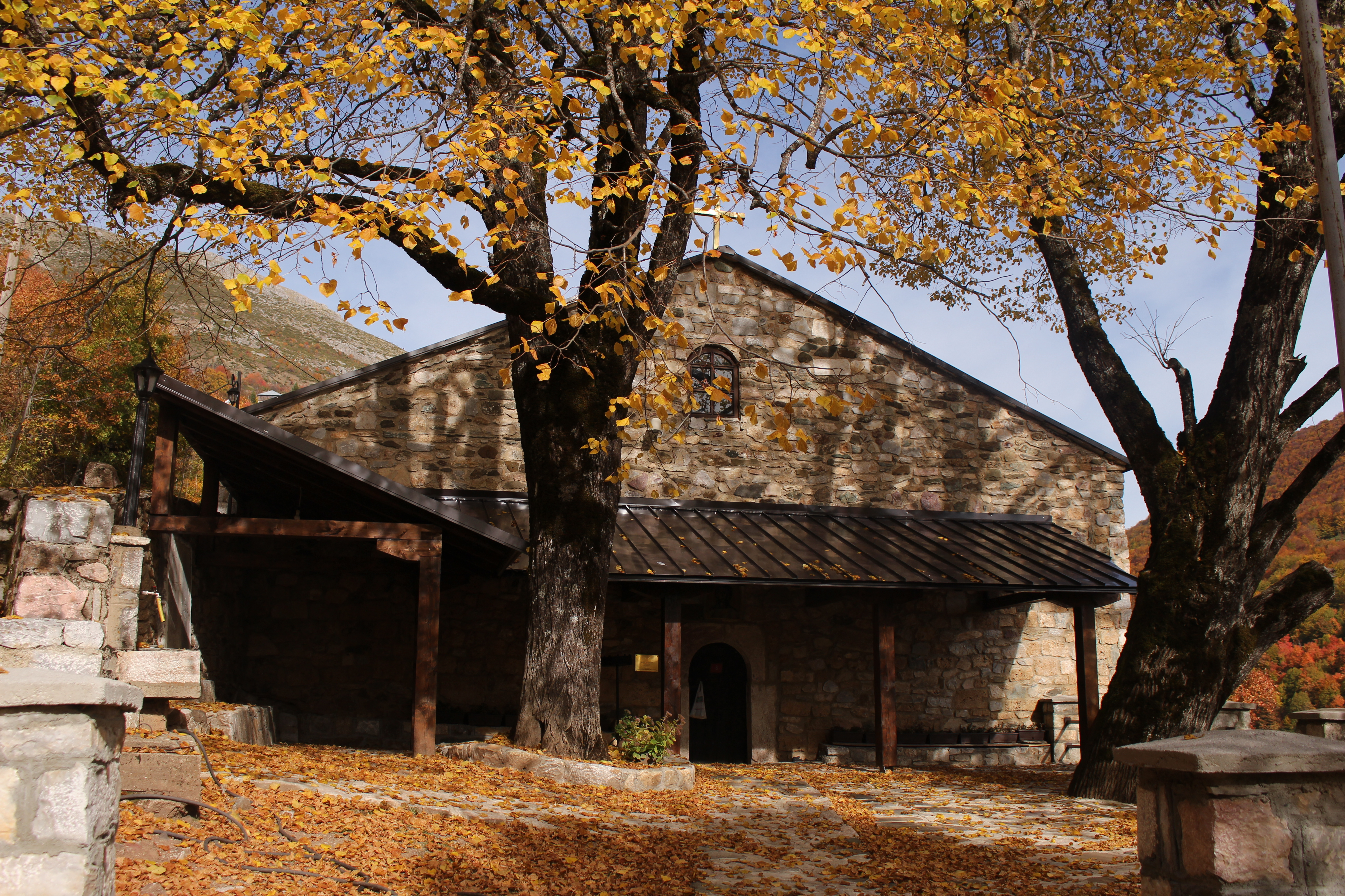 Church "St. Petka" Galichnik